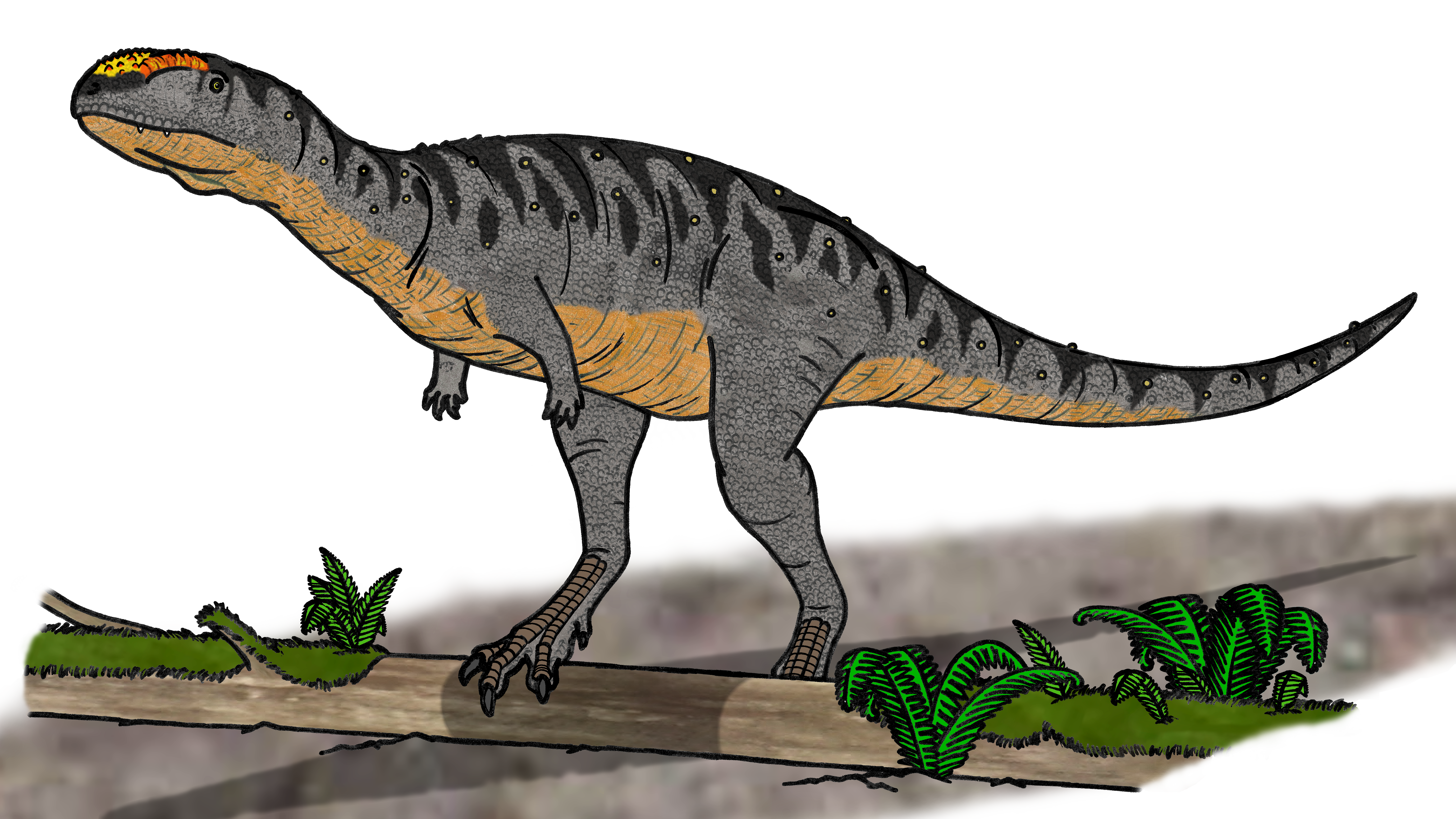 Restoration of Eoabelisaurus mefi' (Reptilia, Dinosauria, Theropoda, Ceratosauria, Abelisauridae).